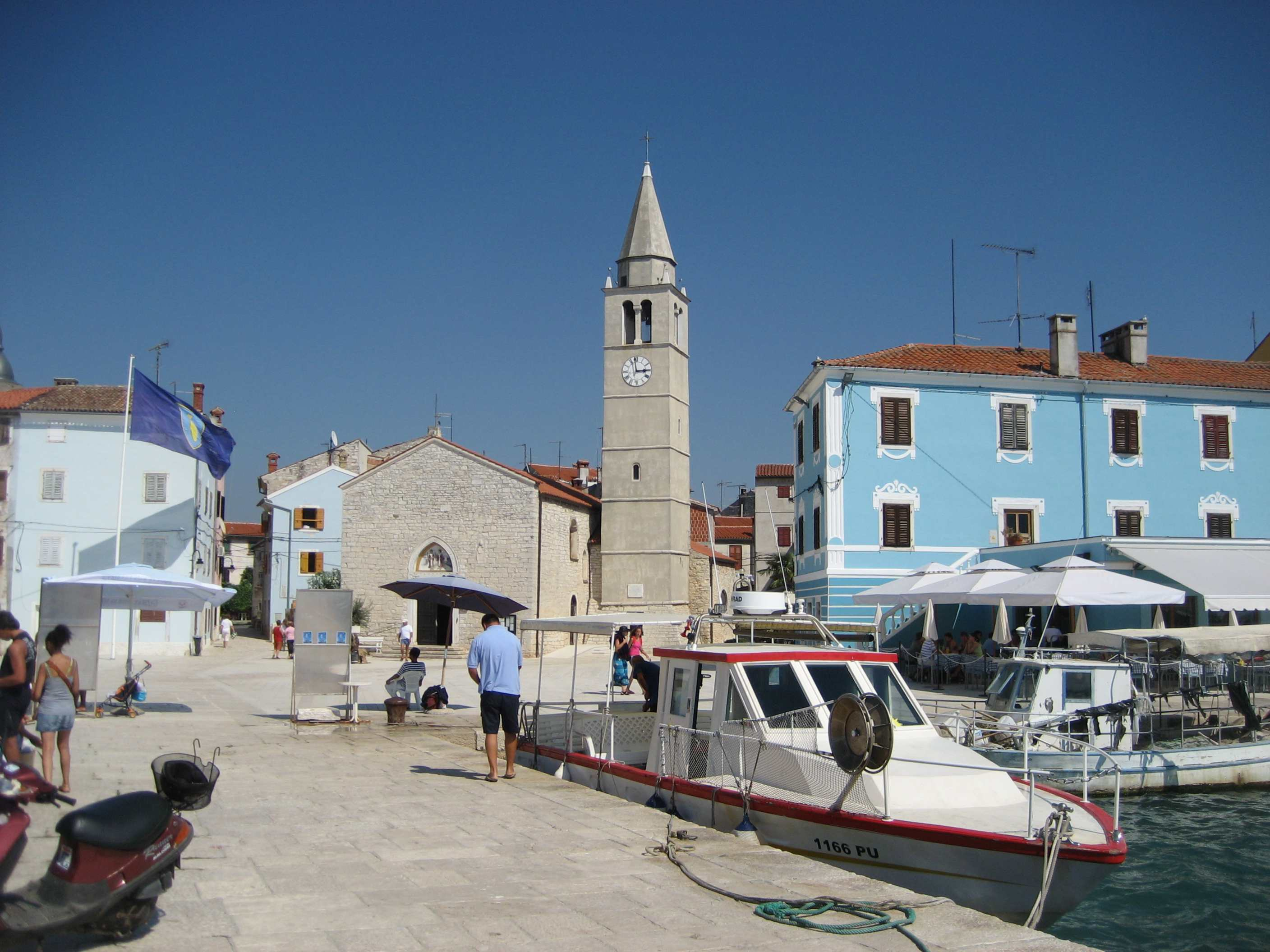 Fazana, adriatic Coast, Croatia